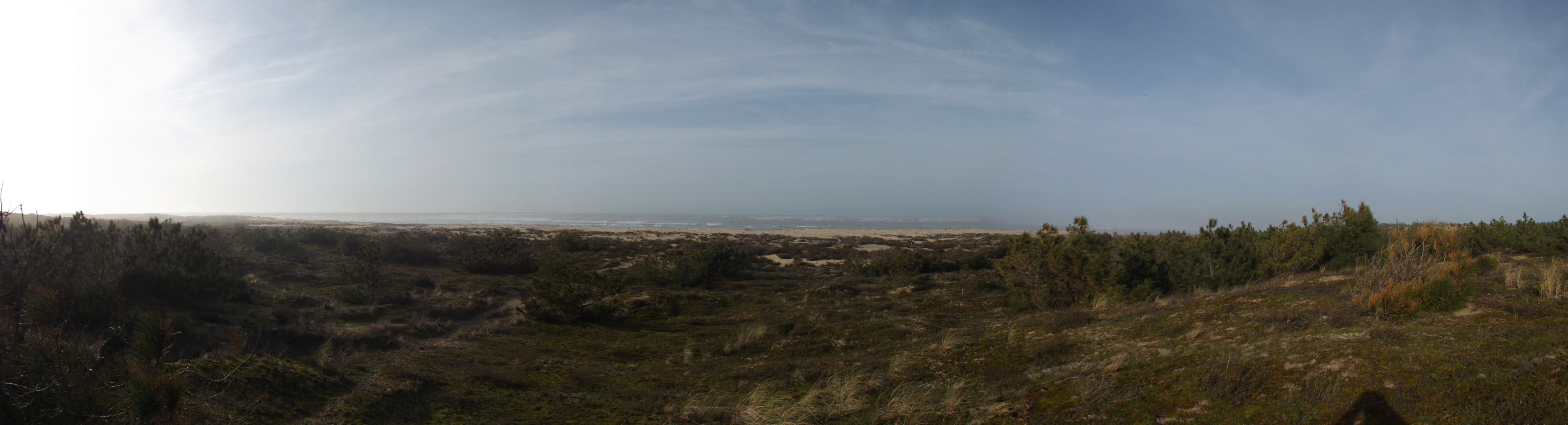 Panorama de la pointe Espagnole